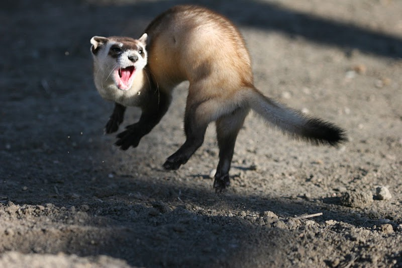 Jumping Black-footed Ferret. Credit: J. Michael Lockhart / USFWS